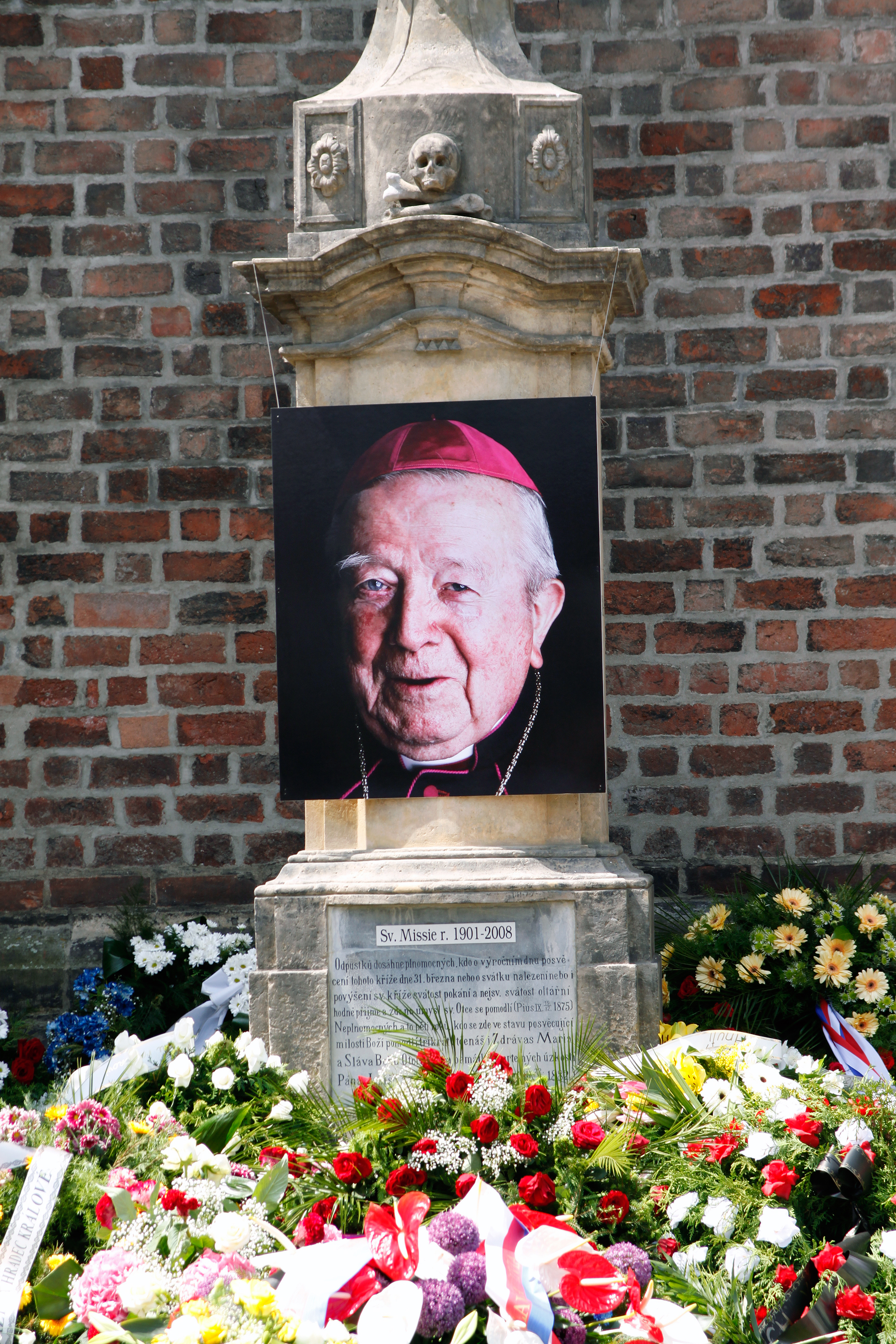 archbishop Karel Otčenášek, from his funeral 3. july 2011